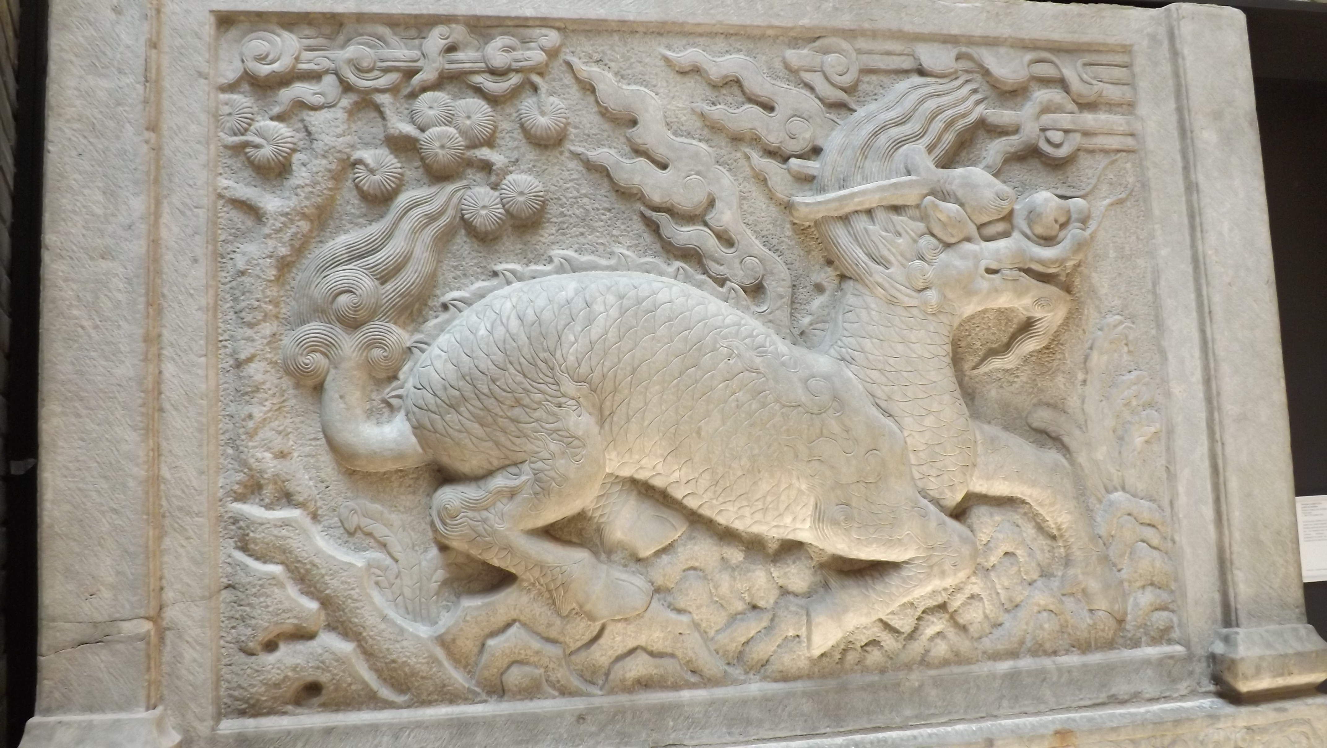 Ming Tomb exhibit, Royal Ontario Museum